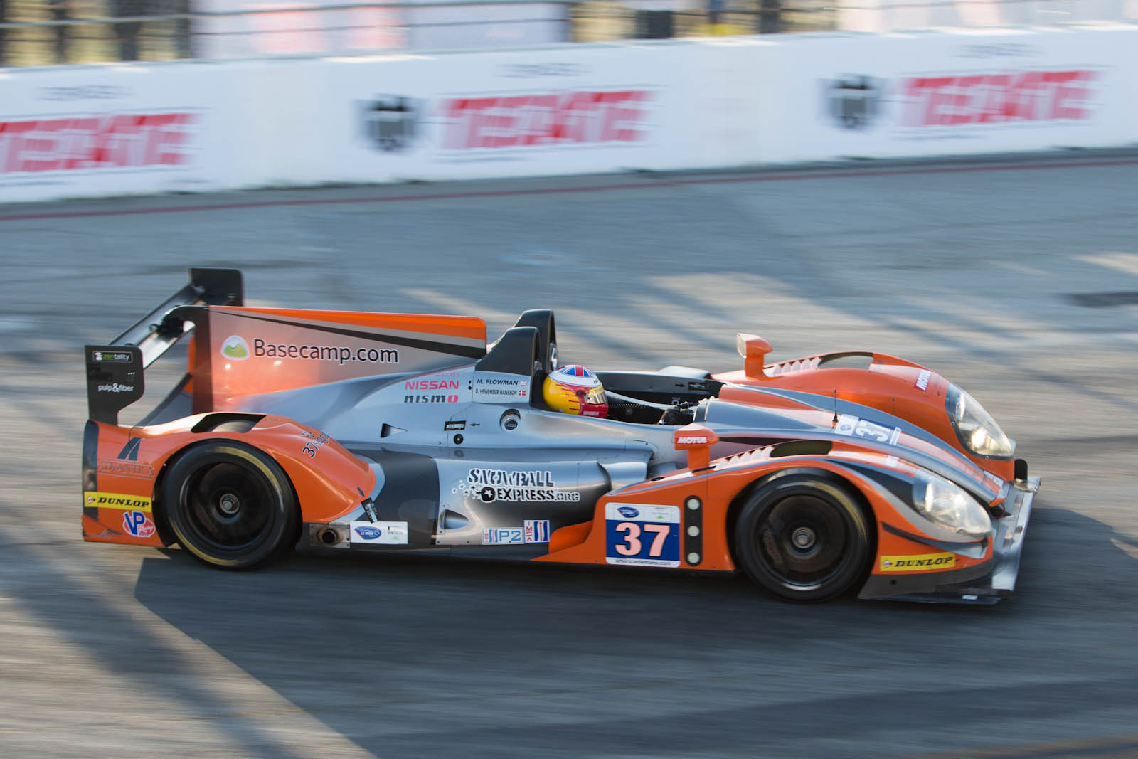 Martin Plowman driving the Conquest Endurance Morgan LMP2-Nissan at the 2012 American Le Mans Series at Long Beach.